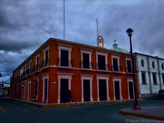 Palacio municipal